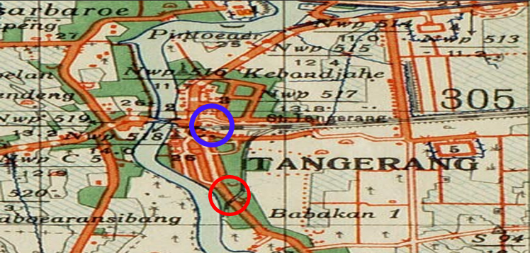 Peta Kolonial Tangerang milik Auteursrech Voorbehouden menunjukan jalur percabangan dari Stasiun Tangerang.